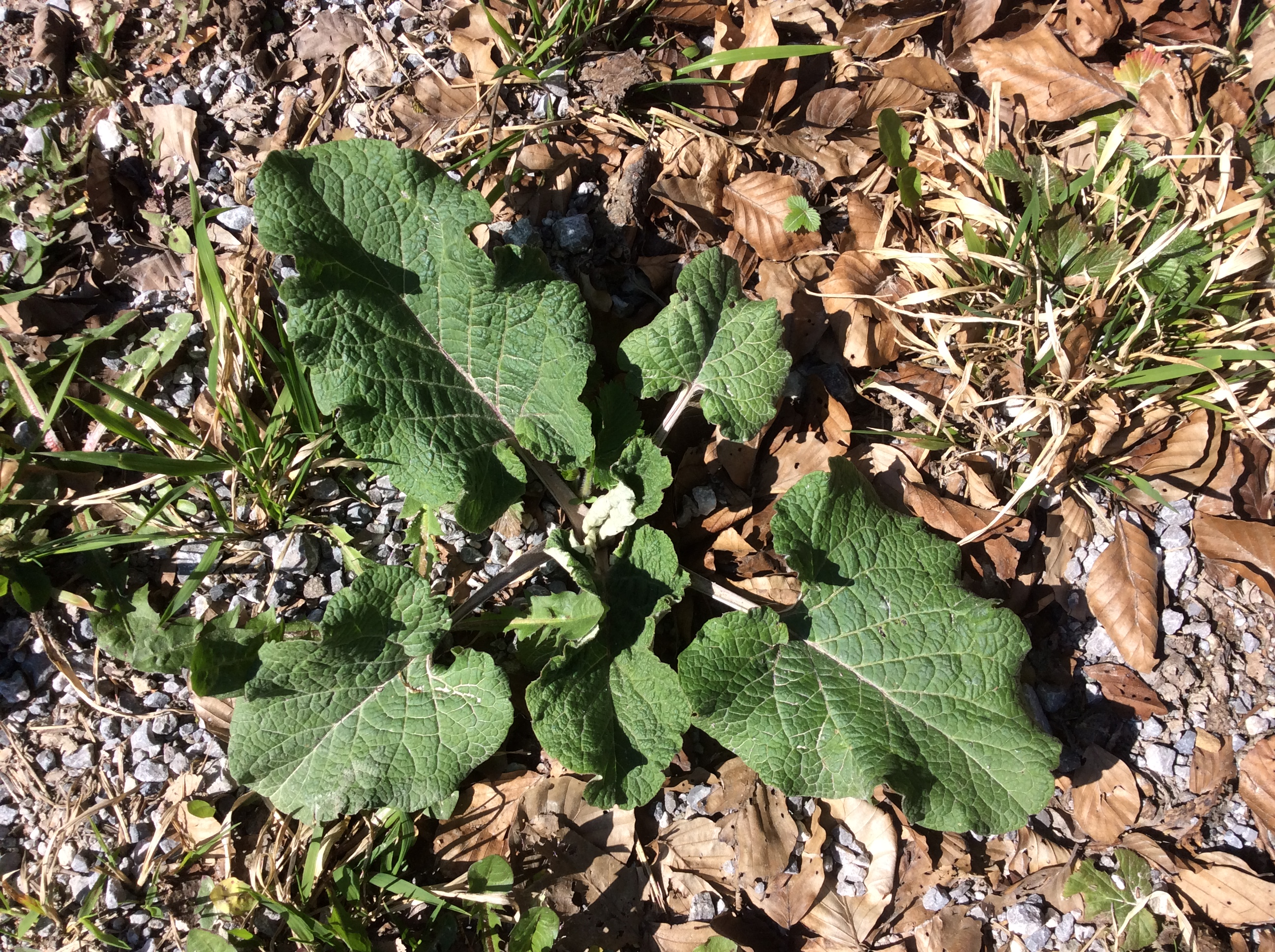 Leaves of Arctium lappa. Bremgartenwald, Canton of Bern, Switzerland.